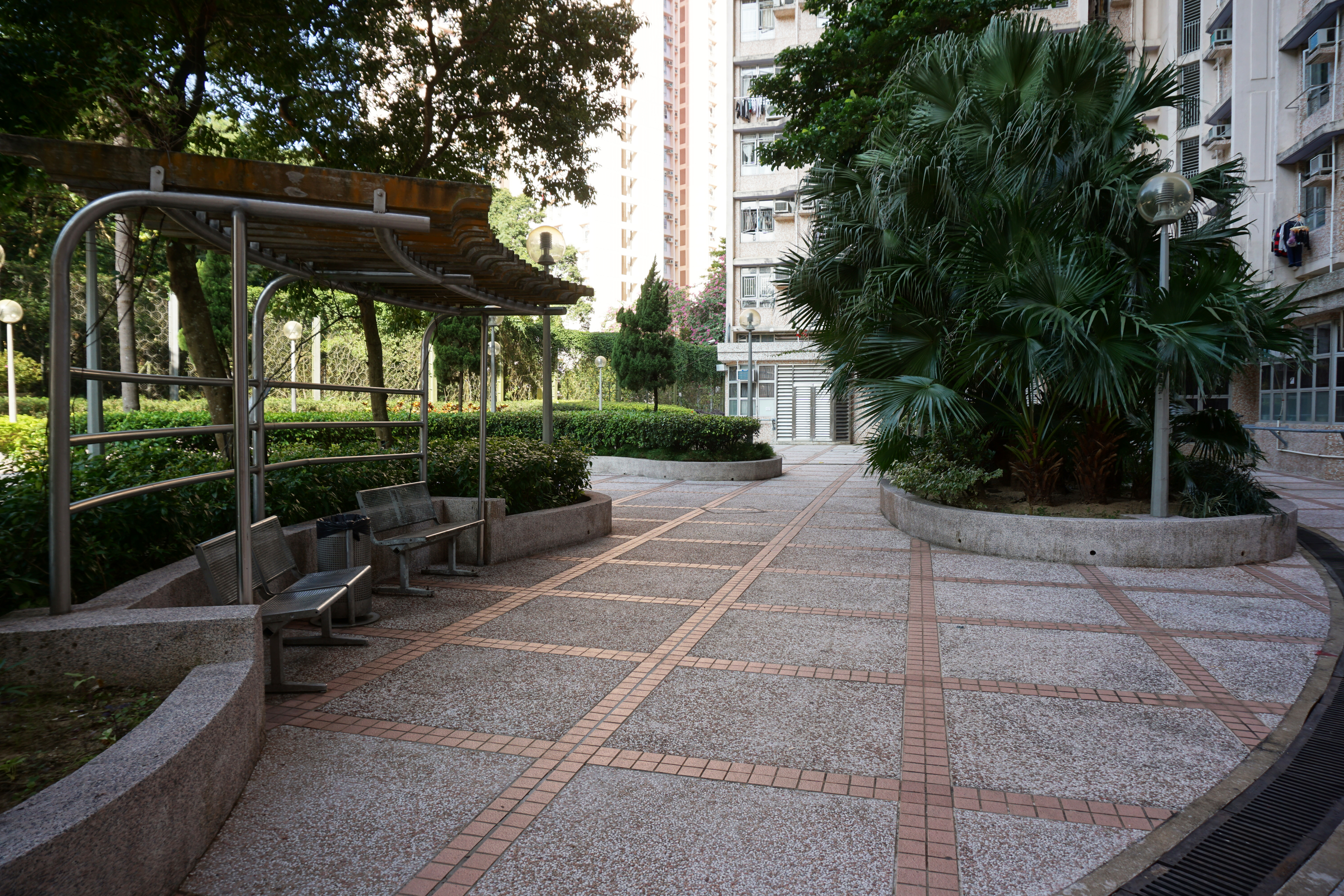 Yung Shing Court in Fanling, Hong Kong.